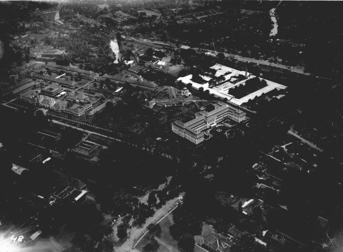 An aerial photograph of the Central Civil Hospital Stovia in Batavia